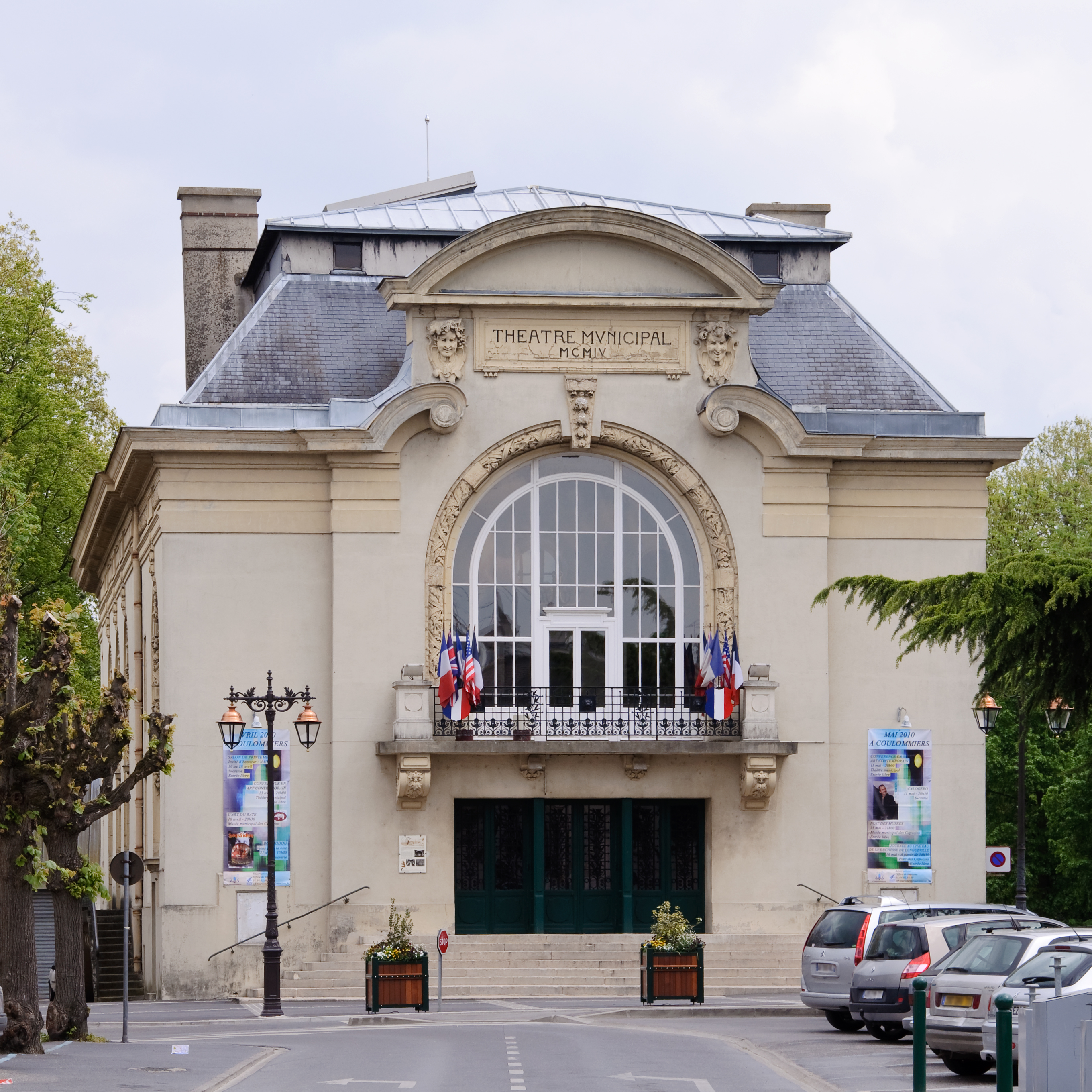 The theater of Coulommiers, Seine-et-Marne, France.